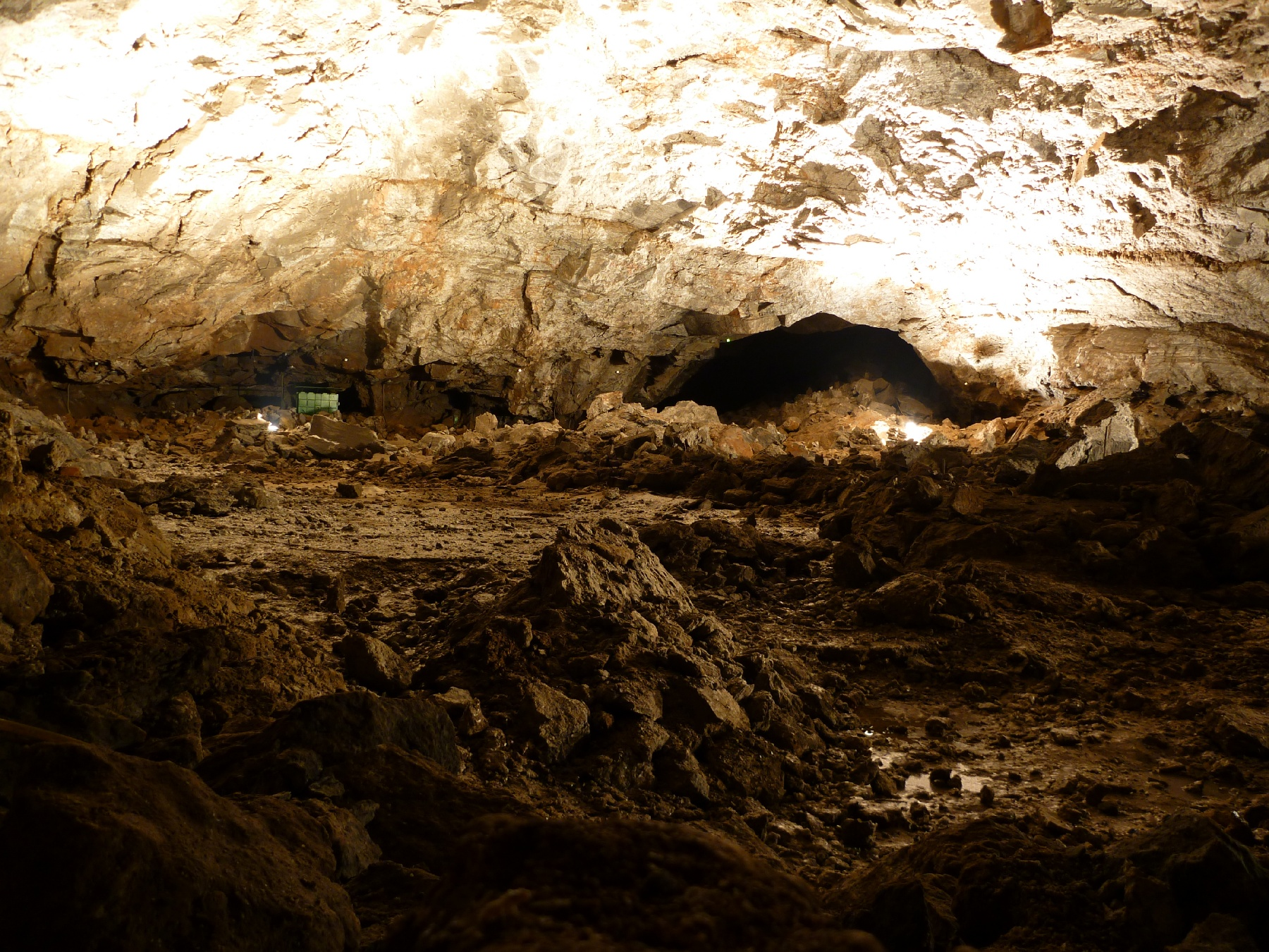 View into the "Heimkehle", a cave near Uftrungen in Saxony-Anhalt, Germany.